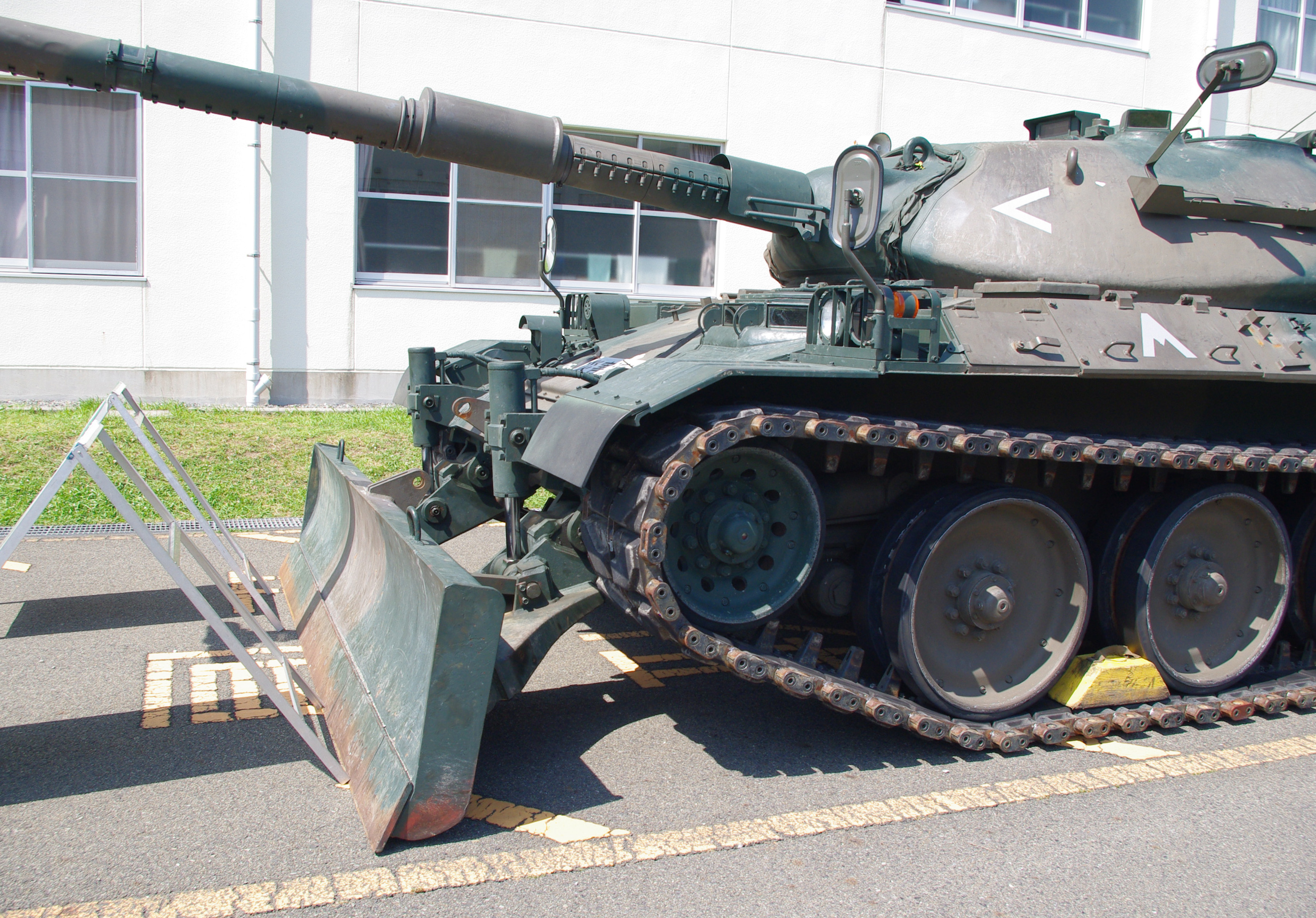 JGSDF Type74 Tank with dozer blade,1st Armored Training Unit/Eastern Army Combined Brigade.Taken by Los688,in Camp Takeyama,Japan,at 27-May-2012.PD-self ja:74式戦車 排土板付 2012年05月27日、東部方面混成団第1機甲教育隊 武山駐屯地で撮影。